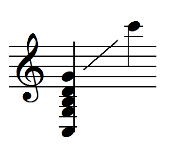 Range of five-string banjo tuned g'cgbd'. Replaces incorrect version previously part of Banjo